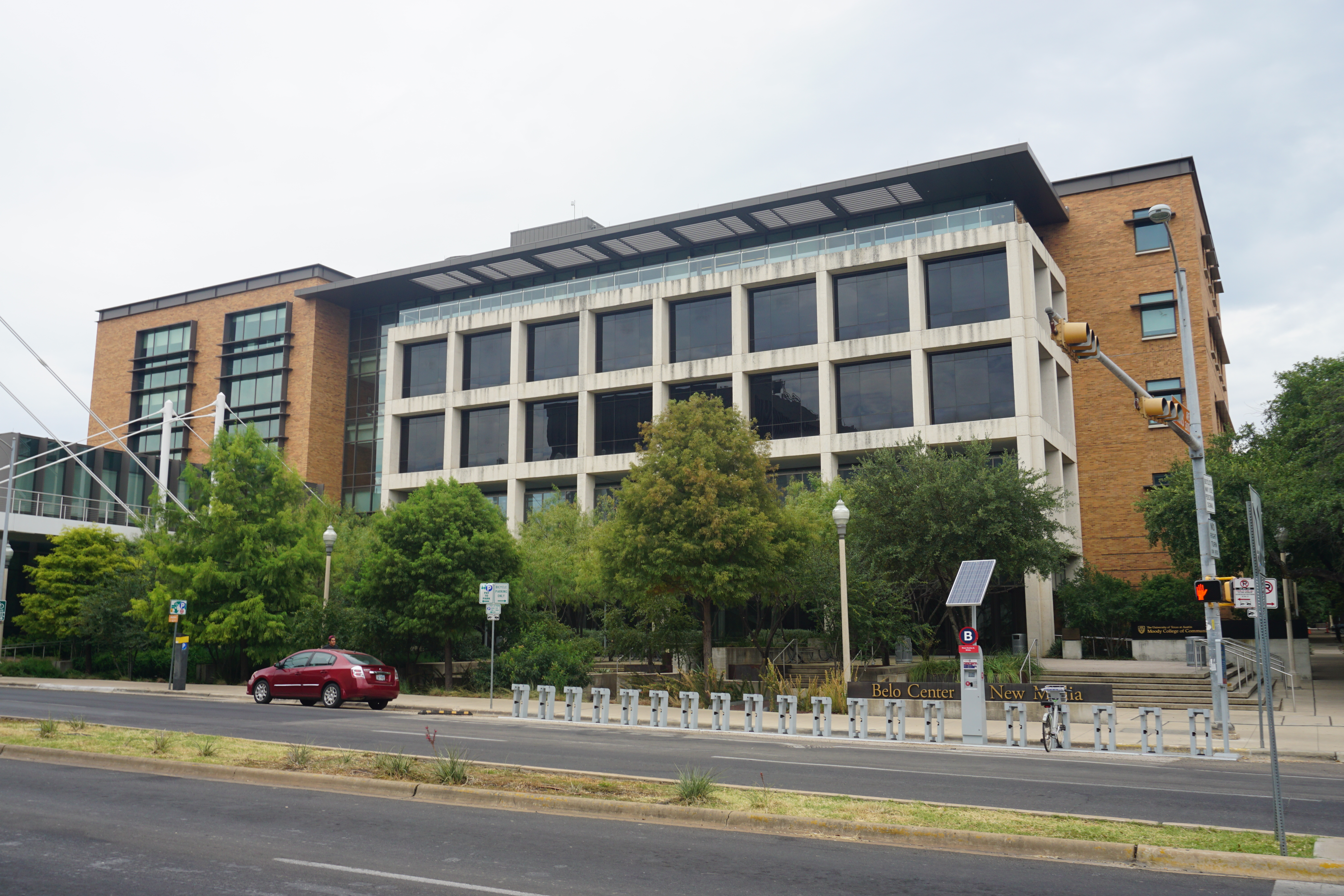 The Belo Center for New Media on the campus of the University of Texas at Austin in Austin, Texas (United States).